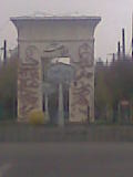 Abadeh